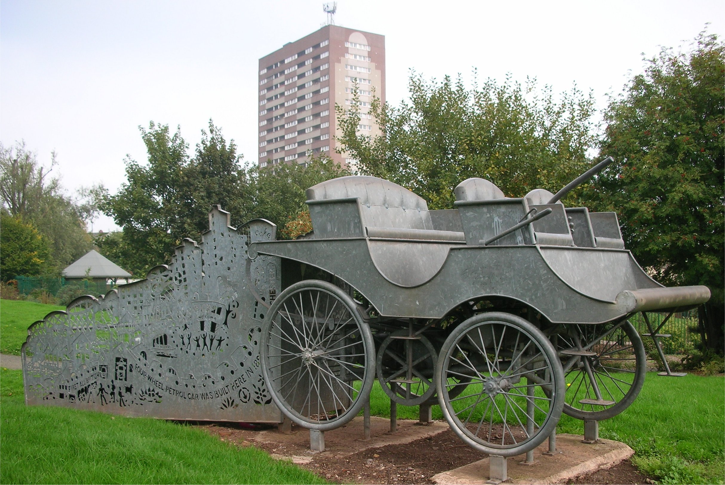 Lanchester Car Monument, an open-air sculpture of the Stanhope Phaeton, or Lanchester motor car. It is in Bloomsbury Village Green, a piece of reclaimed land in the Heartlands (Nechells) area of Birmingham, England. It was designed by Tim Tolkien to commemorate the Lanchester cars which were made in the city. Photographed by me 16 October 2006.